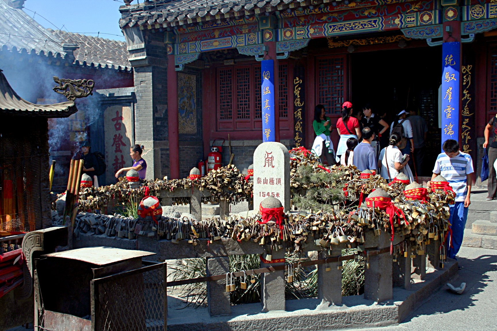 The stela marker at "Jade Emperor Temple" — on the highest peak of Mount Tai, Shandong Province, China.